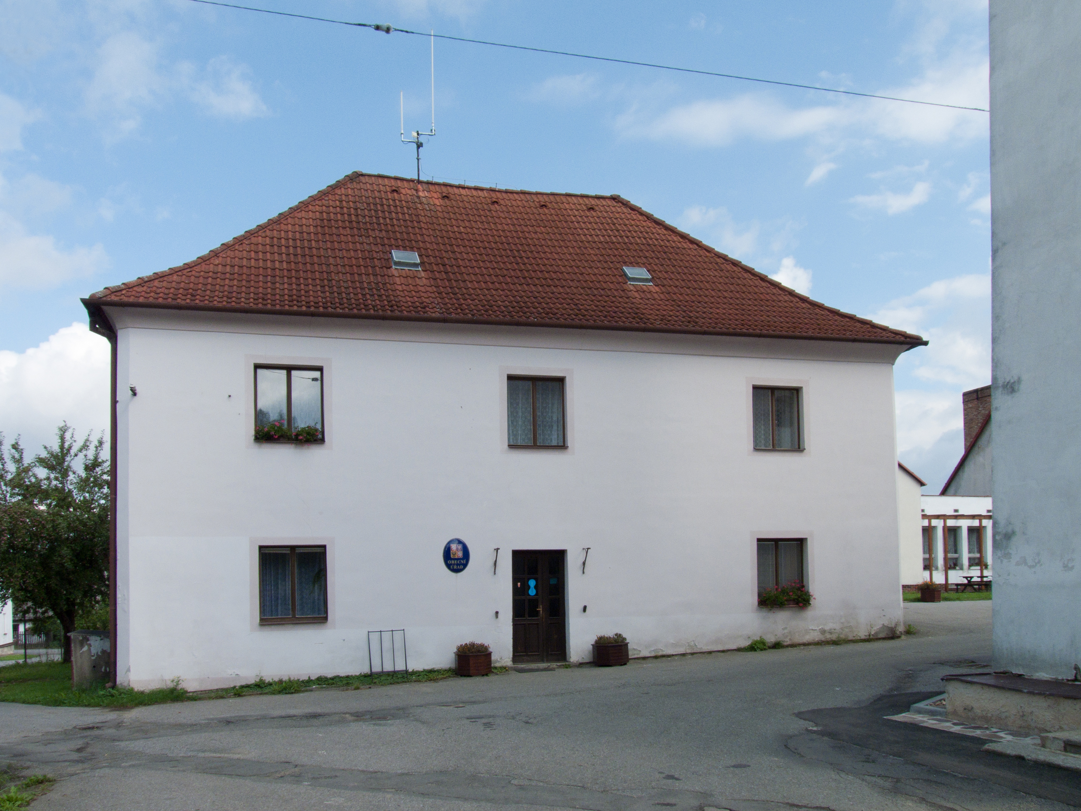 Municipal authority building in the village of Ratibořské Hory, Tábor District, Czech Republic